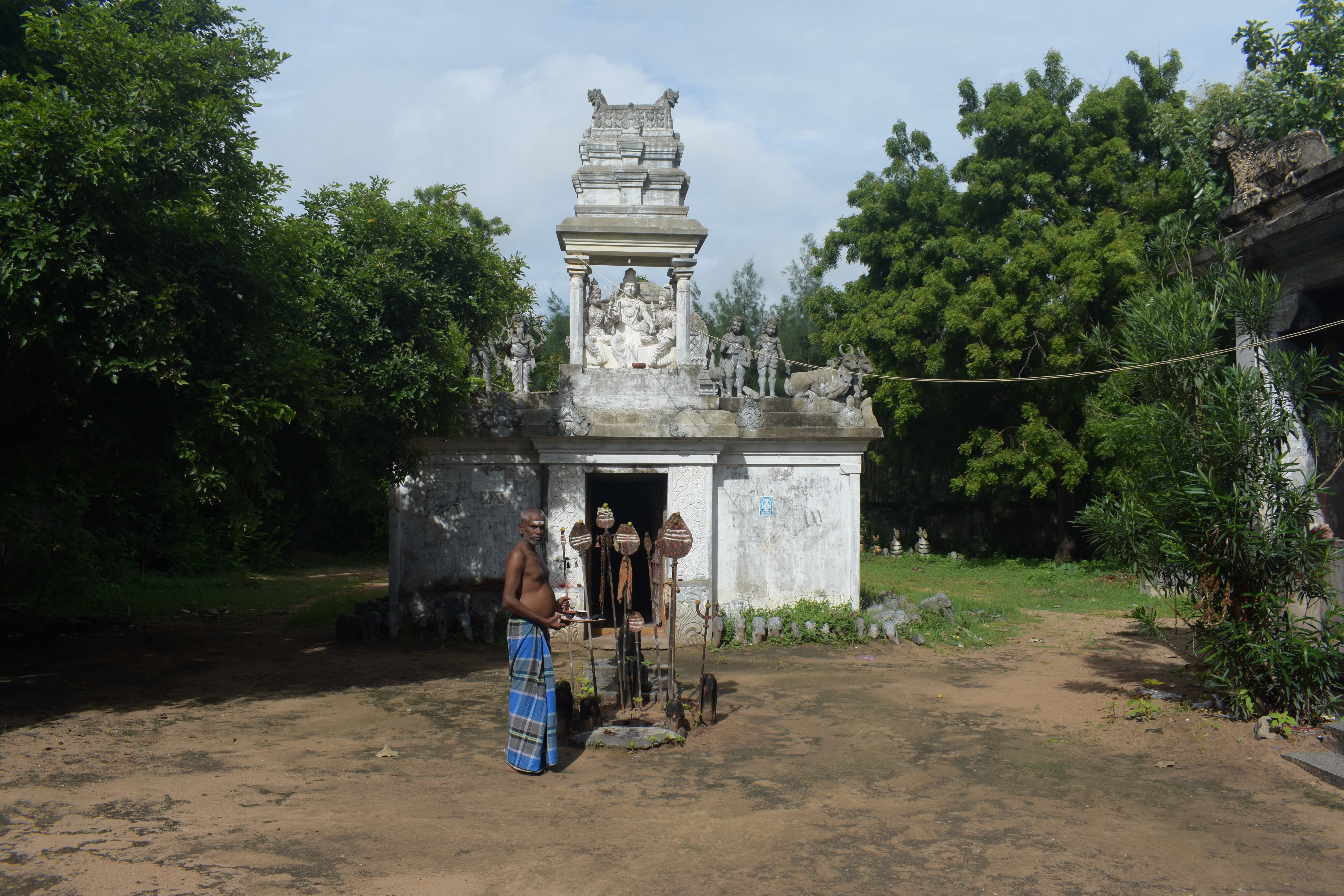 Eeswarakandanalloor Arikarapuththira Aiyanaar temple front view